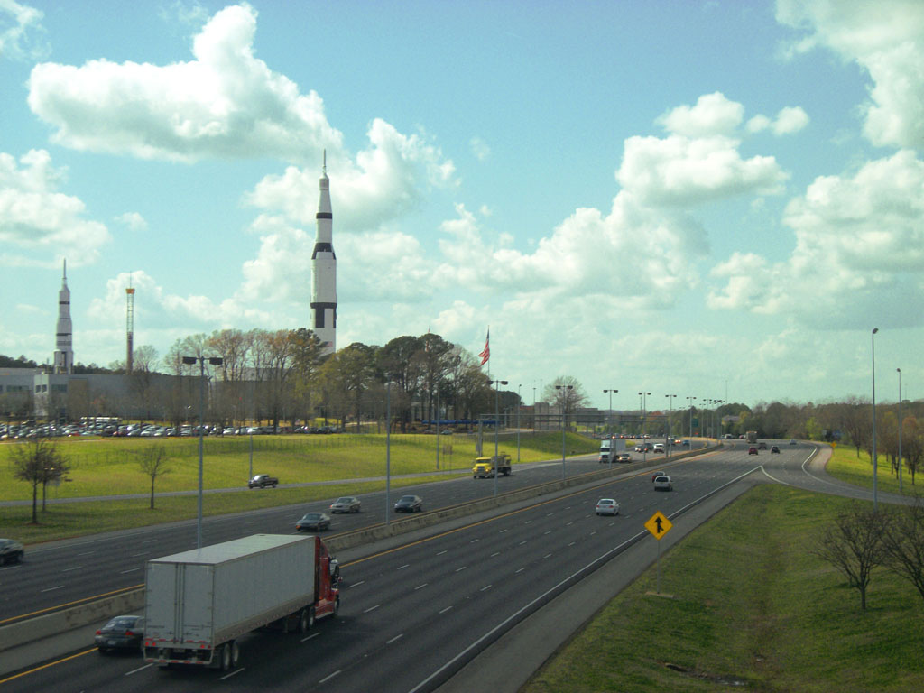 Photograph of Interstate 565 as it passes by the US Space and Rocket Center in Huntsville, Alabama; taken by Larry Wilbourn